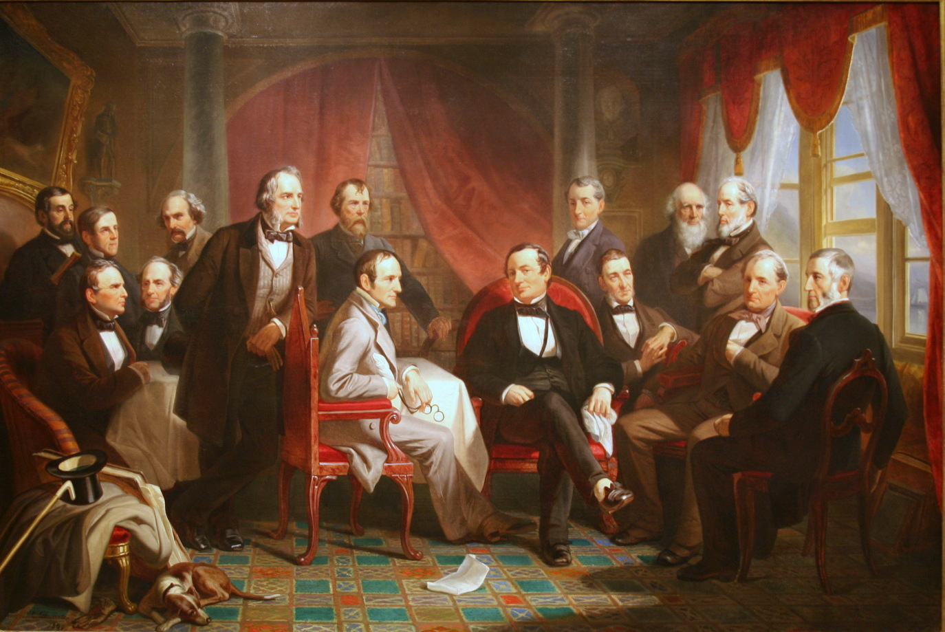 From left to right: Henry T. Tuckerman (1813-1871), Oliver Wendell Holmes (1809-1894), William Gilmore Simms (1806-1870), Fitz-Greene Halleck (1790-1867), Nathaniel Hawthorne (1804-1864), Henry Wadsworth Longfellow (1807-1882), Nathaniel Parker Willis (1806-1867), William H. Prescott (1796-1859), Washington Irving, James Kirke Paulding (1778-1860), Ralph Waldo Emerson (1803-1882), William Cullen Bryant (1794-1878), John Pendleton Kennedy (1795-1870), James Fenimore Cooper (1789-1851), and George Bancroft (1800-1891).